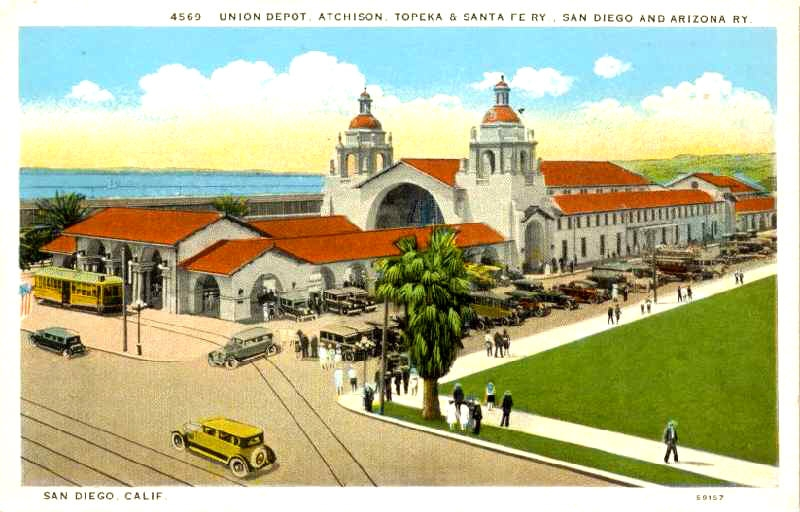 San Diego, CA: Union Depot, Atchison, Topeka & Santa Fe Ry (ATSF), San Diego and Arizona Ry (SDA).